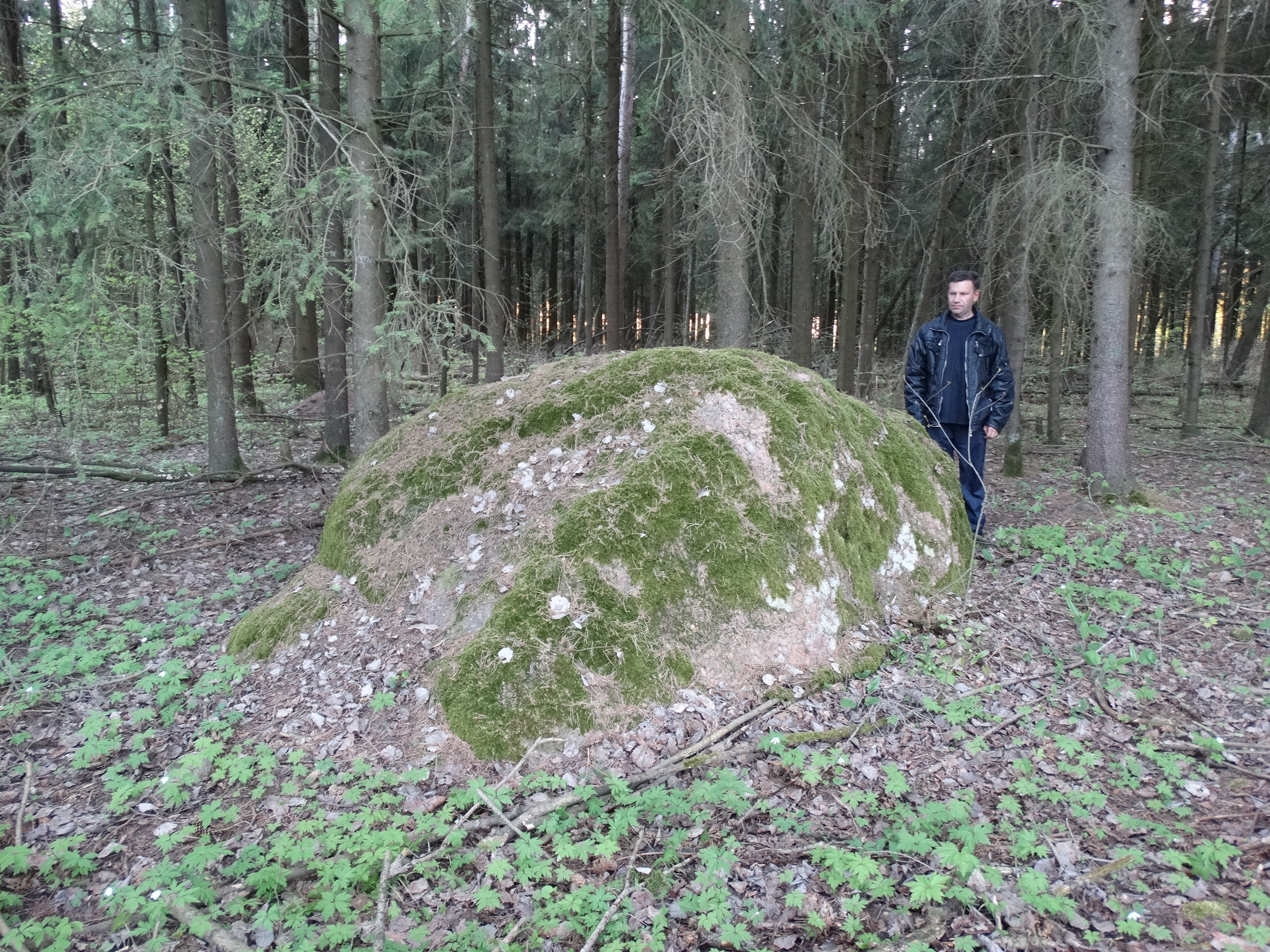 Kaniūkai Stone, Šalčininkai District, Lithuania